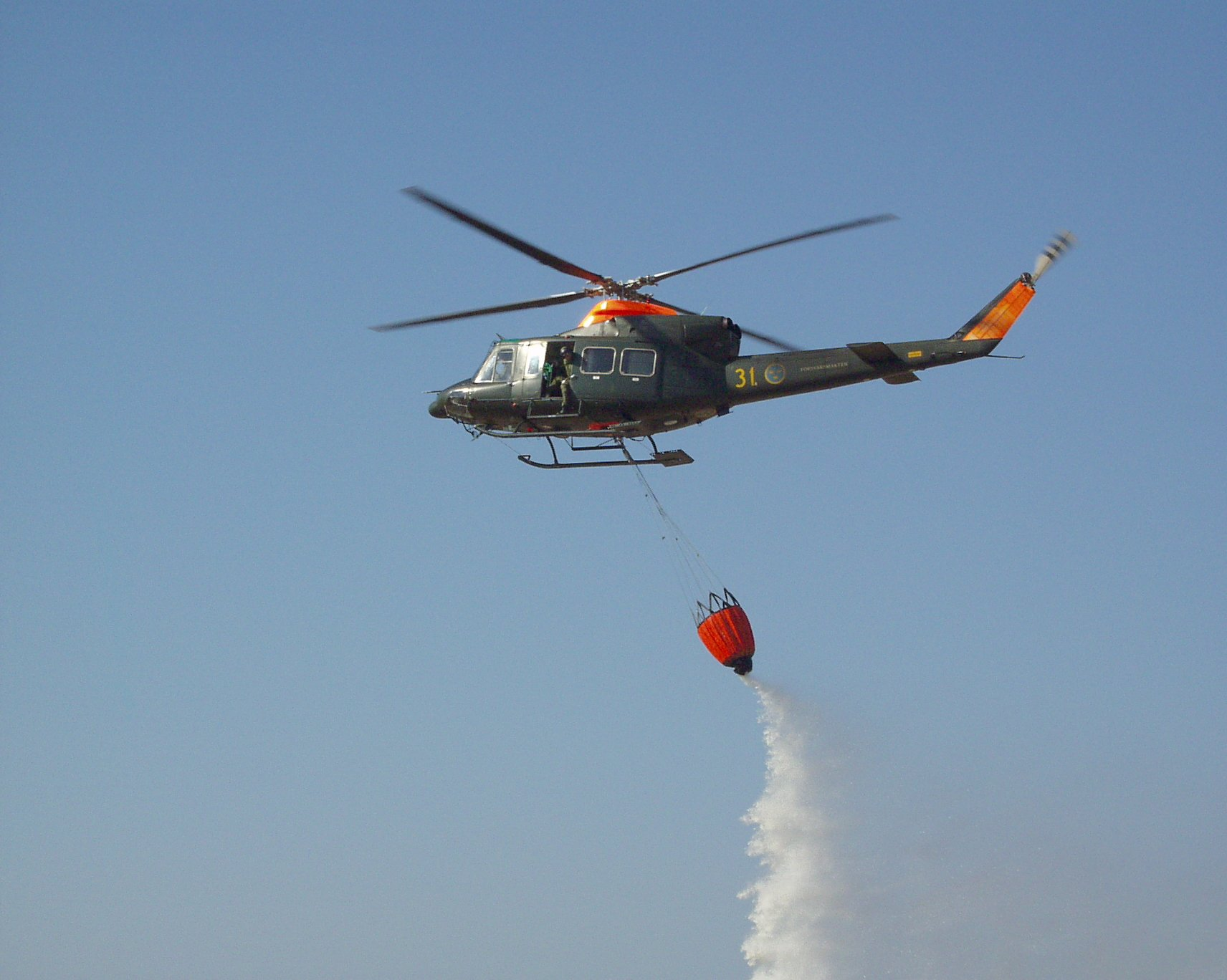 Swedish Armed Forces Bell 412 (Swedish designation: Hkp 11) equipped for fire-fighting, here photographed demonstrating capability during an air show in Halmstad, 2004